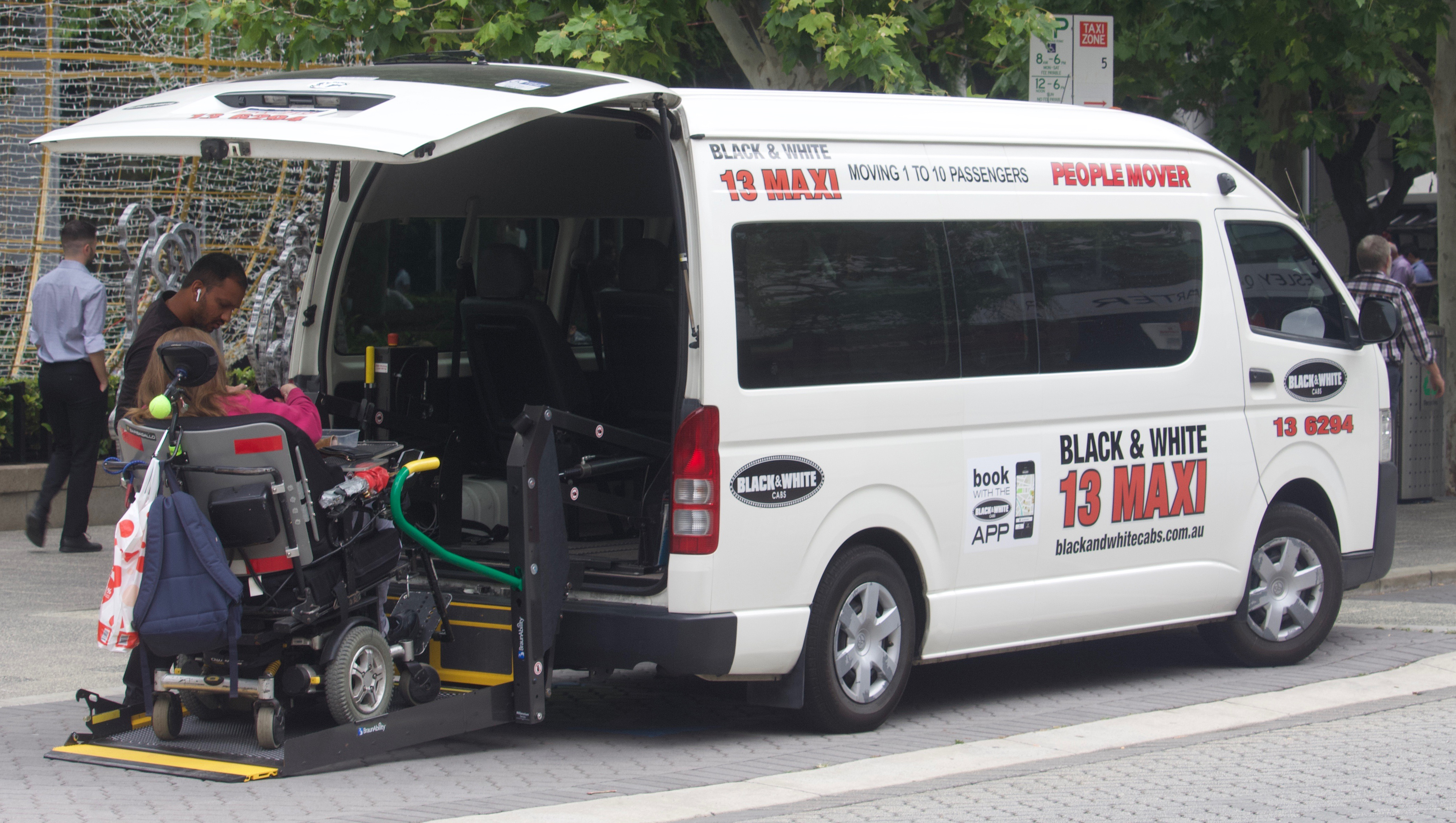 2016 Toyota HiAce (KDH223R) Commuter Super LWB van, Black & White 13 MAXI. Photographed in Perth, Western Australia, Australia.